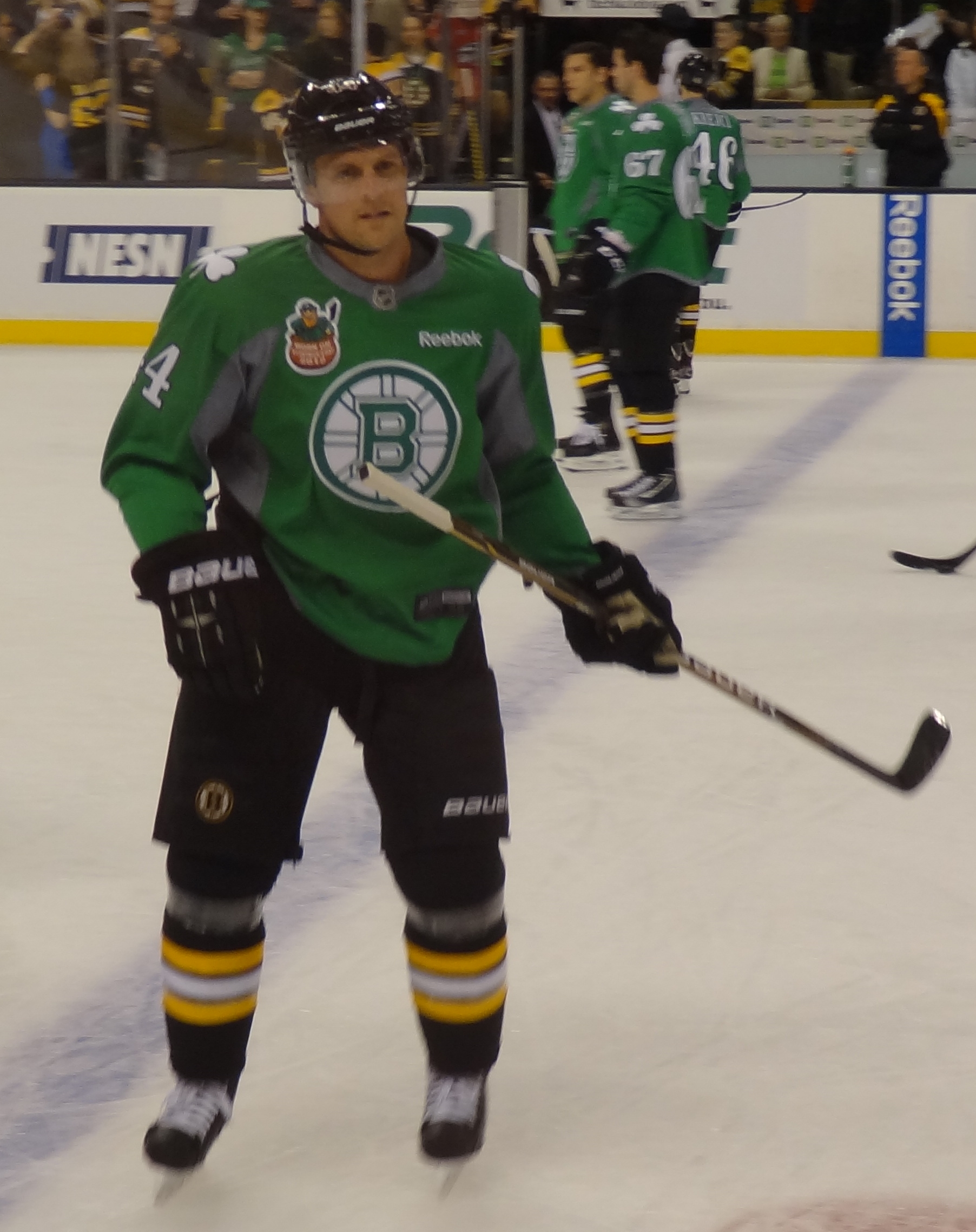 Dennis Seidenberg during pre-game warm-ups prior to the Bruins vs Flyers game at the TD Garden, Boston, MA.